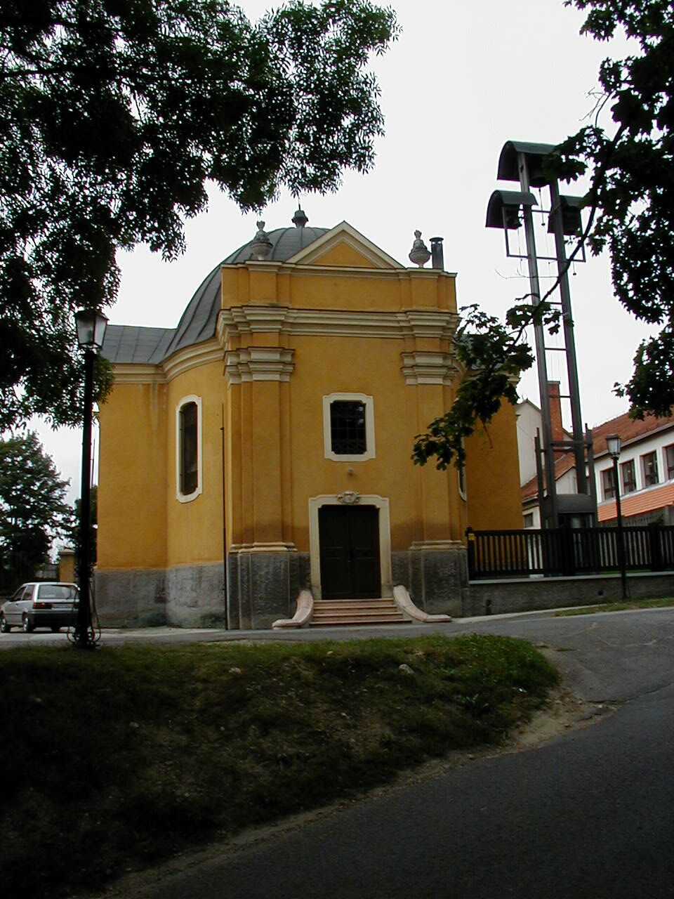 Bakonyszentlászló, Ladislaus church This is a photo of a monument in Hungary, Identifier: 9621